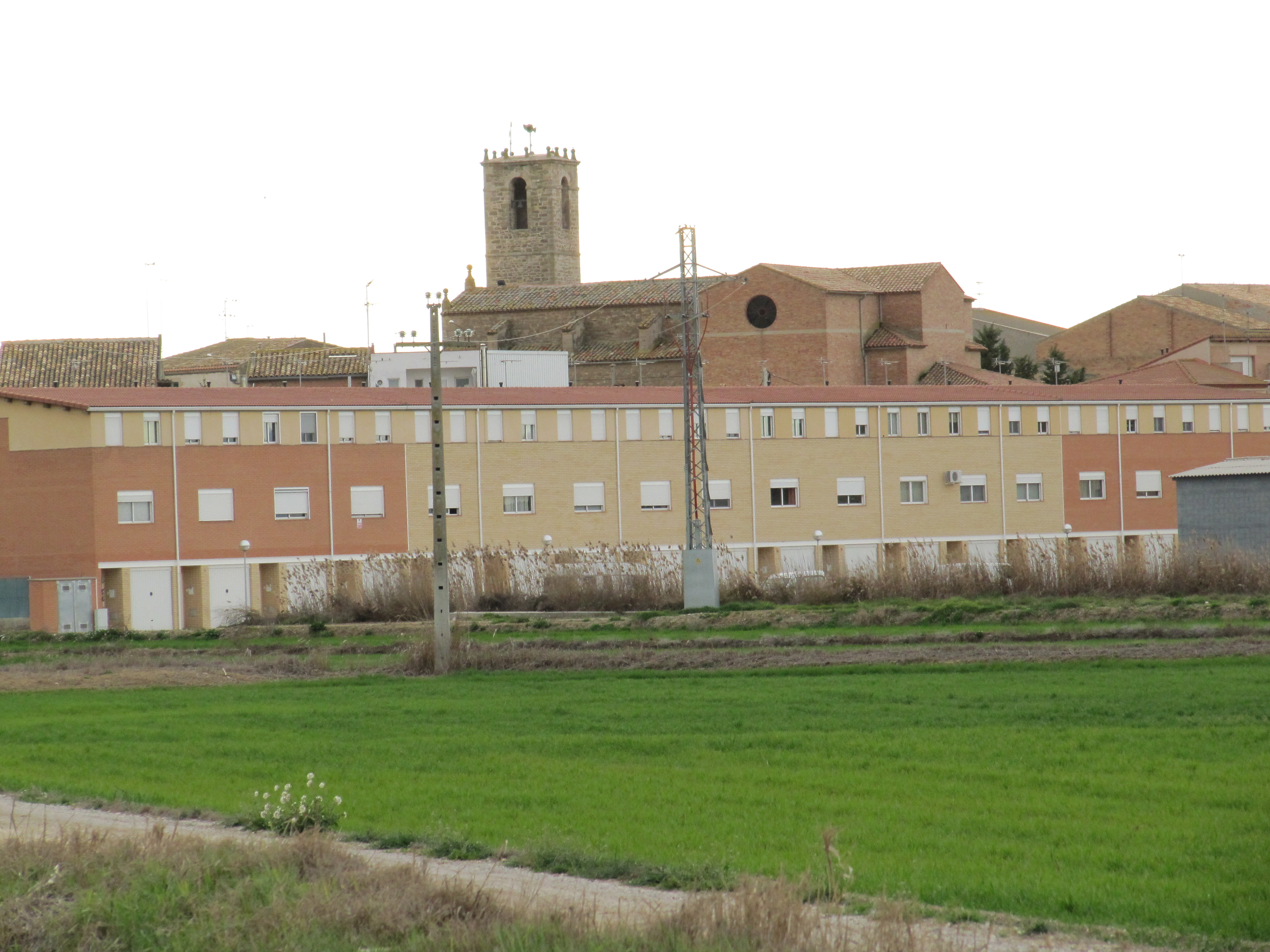 Sidamon image